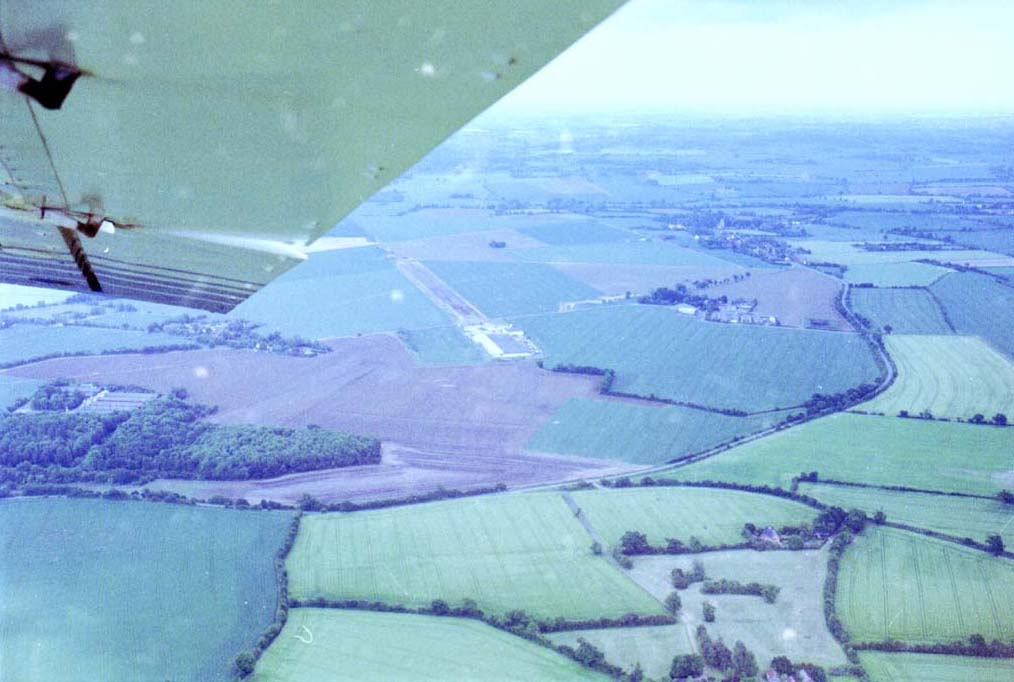 Horham England, author is UniversalInfo